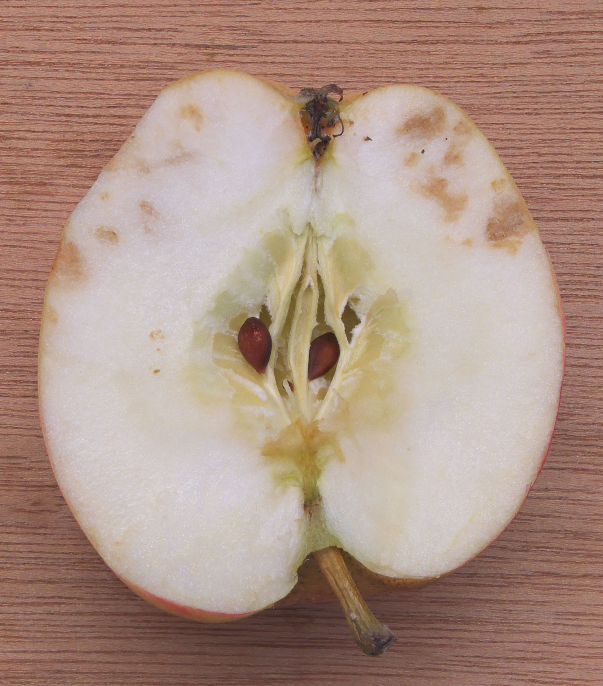 Malus domestica 'Summerred' bitterpit